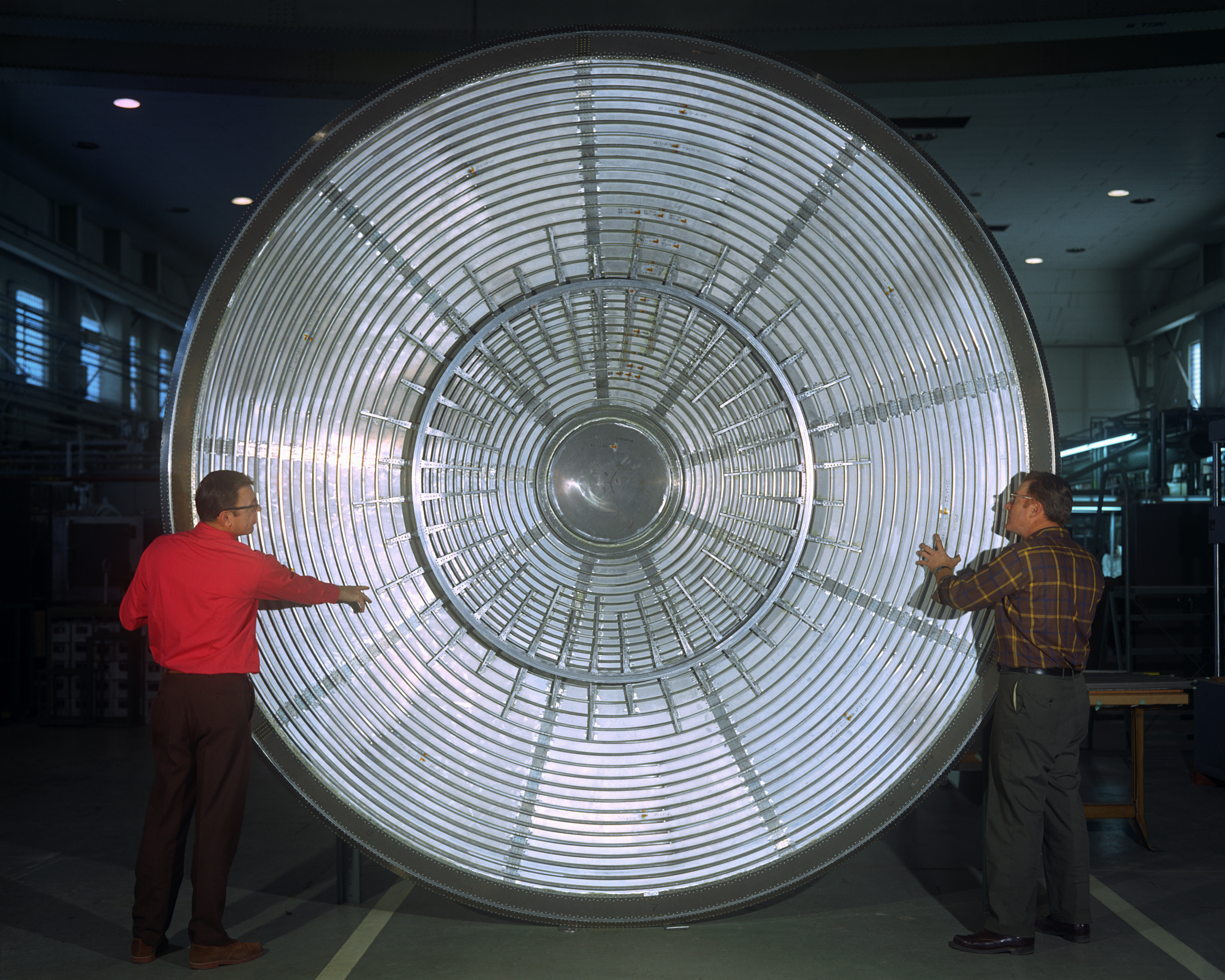 The Viking aeroshell which protected the lander during its entry into the Martian atmosphere.